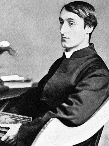 Gerard Manley Hopkins (28 July 1844 – 8 June 1889) was an English poet, Roman Catholic convert, and Jesuit priest, whose posthumous fame established him among the leading Victorian poets. His experimental explorations in prosody (especially sprung rhythm) and his use of imagery established him as a daring innovator in a period of largely traditional verse.